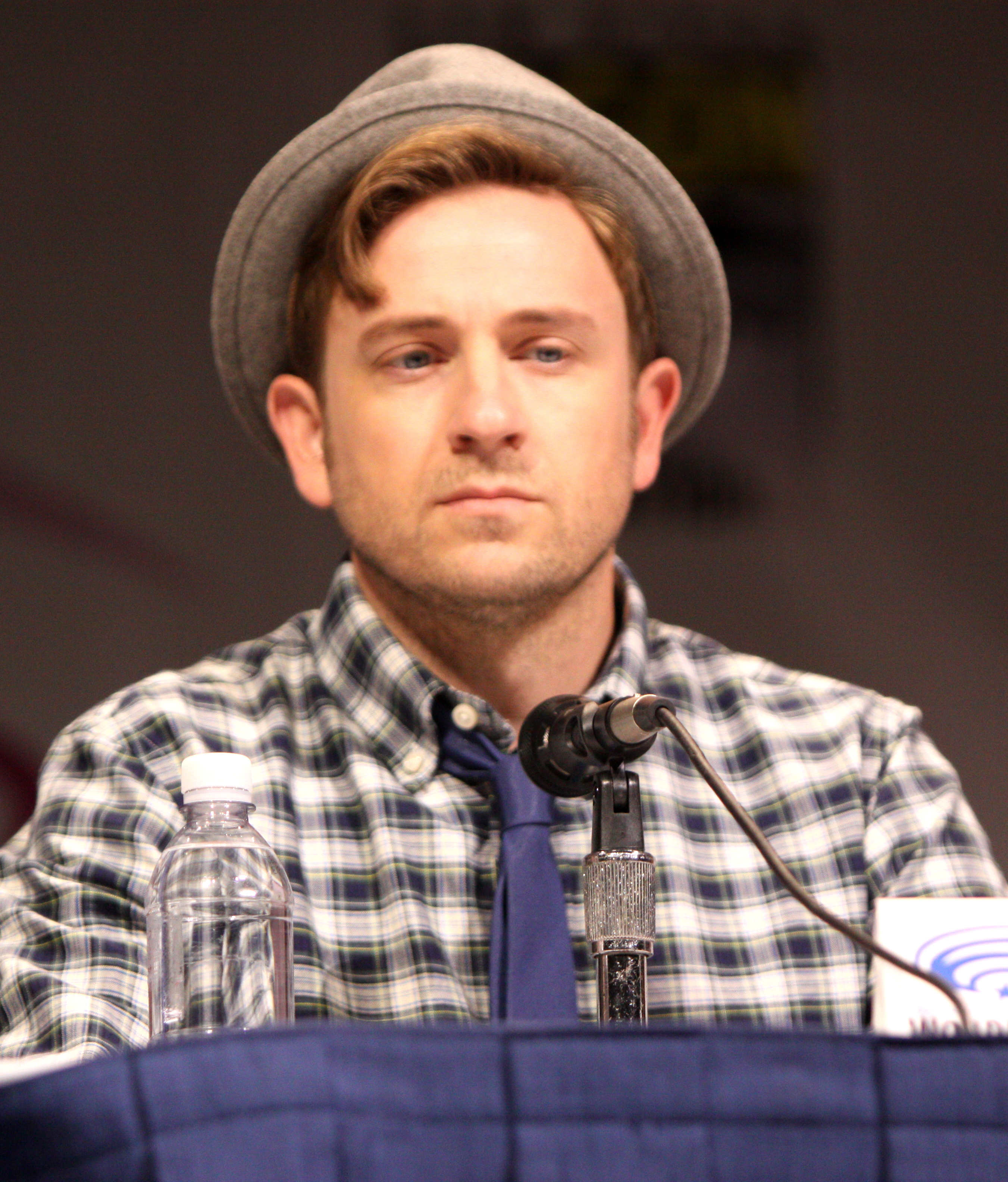 Tom Lenk speaking at the 2013 WonderCon at the Anaheim Convention Center in Anaheim, California.